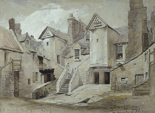 Photograph of White Horse Close, Edinburgh 1845, 1845. Watercolour heightened with white on paper, by Horatio McCulloch. In the public domain.